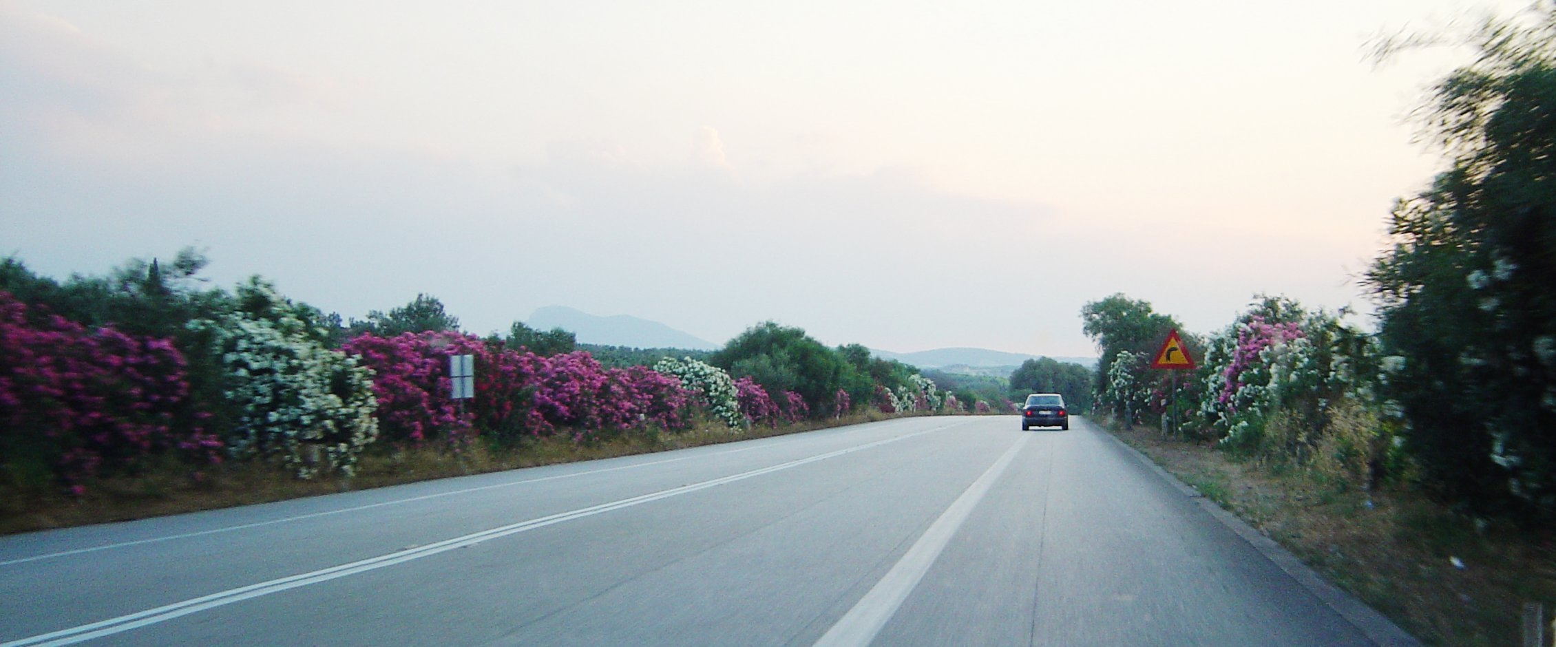 Greece: freeway 8A